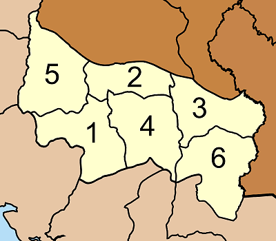 Map of Khao Phanom district, Krabi province, Thailand, with the communes (tambon) numbered. Khao Phanom (เขาพนม) Khao Din (เขาดิน) Sin Pun (สินปุน) Phru Tiao (พรุเตียว) Na Khao (หน้าเขา) Khok Han (โคกหาร)